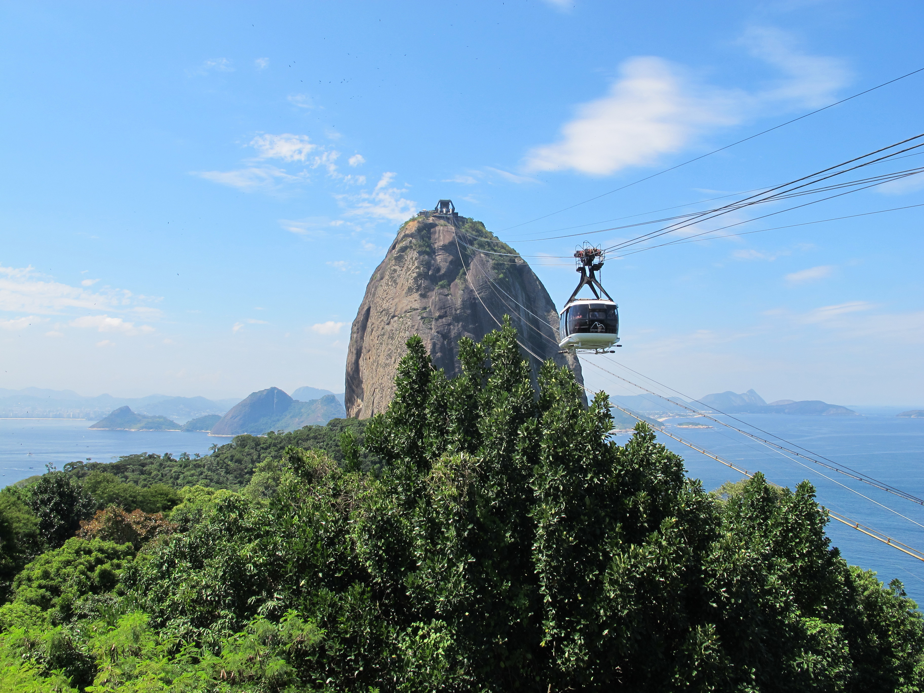 The Sugarloaf Mountain in Rio de Janeiro